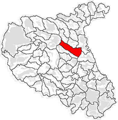 Limits of commune within Vrancea County